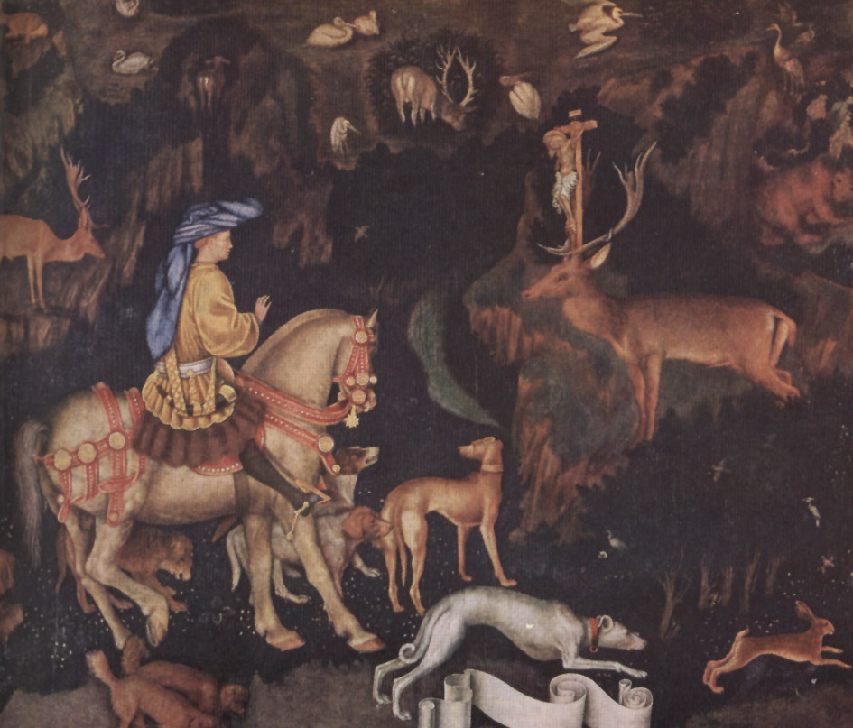 Vision of St Eustacelabel QS:Len,"Vision of St Eustace" label QS:Lnl,"Het visioen van Sint Eustachius."